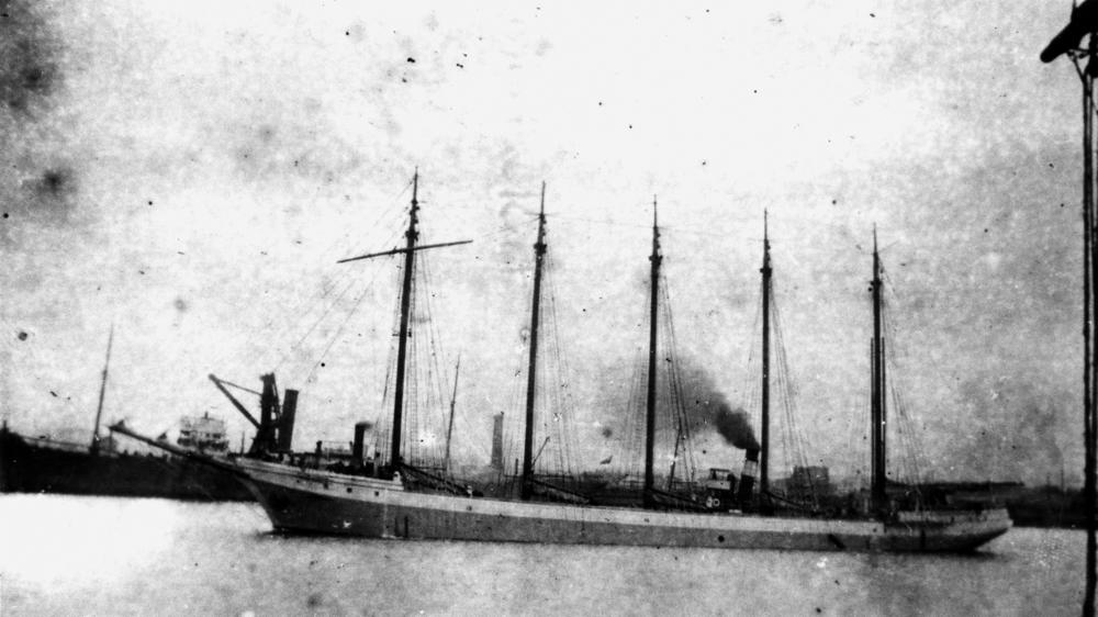 Malahat (ship) Built 1917. 1,550 Gross tons. Columbia. 245.7X43.8X21. (Description supplied with photograph).